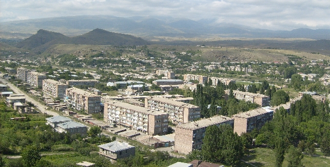 Sisian town, Armenia